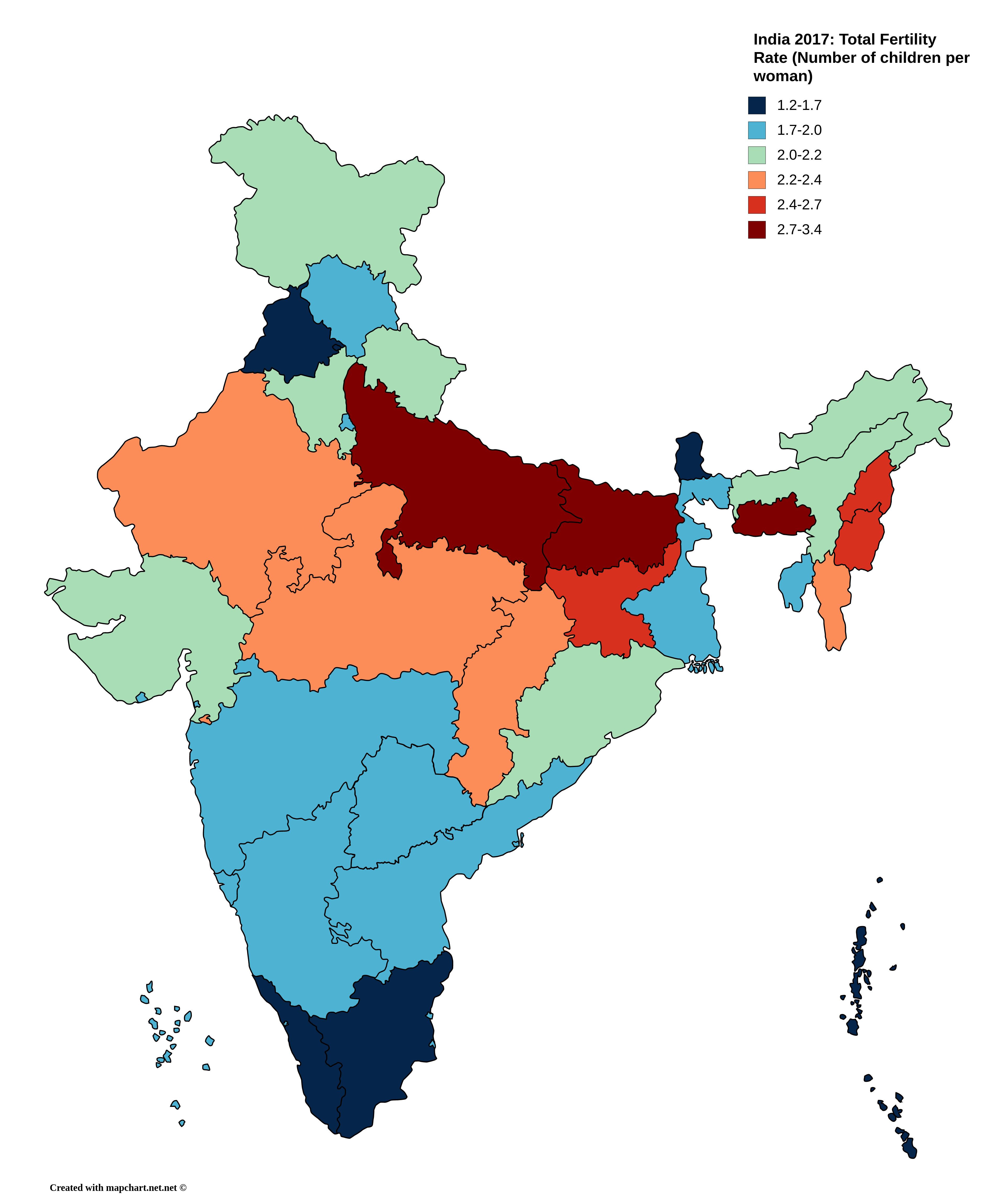 TFR of India